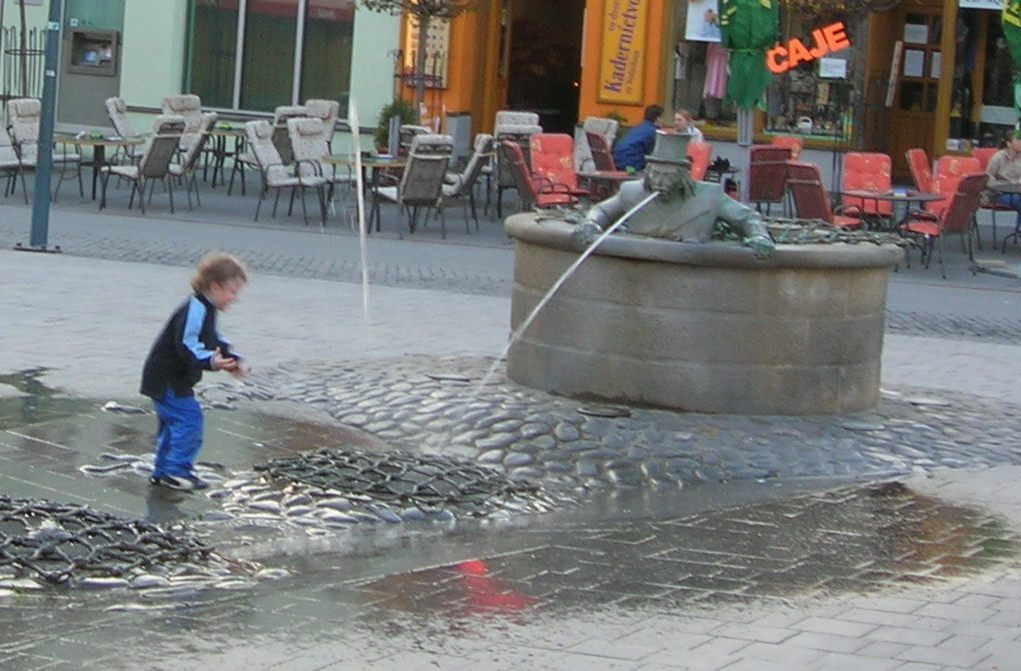 fountain with a vodnik.